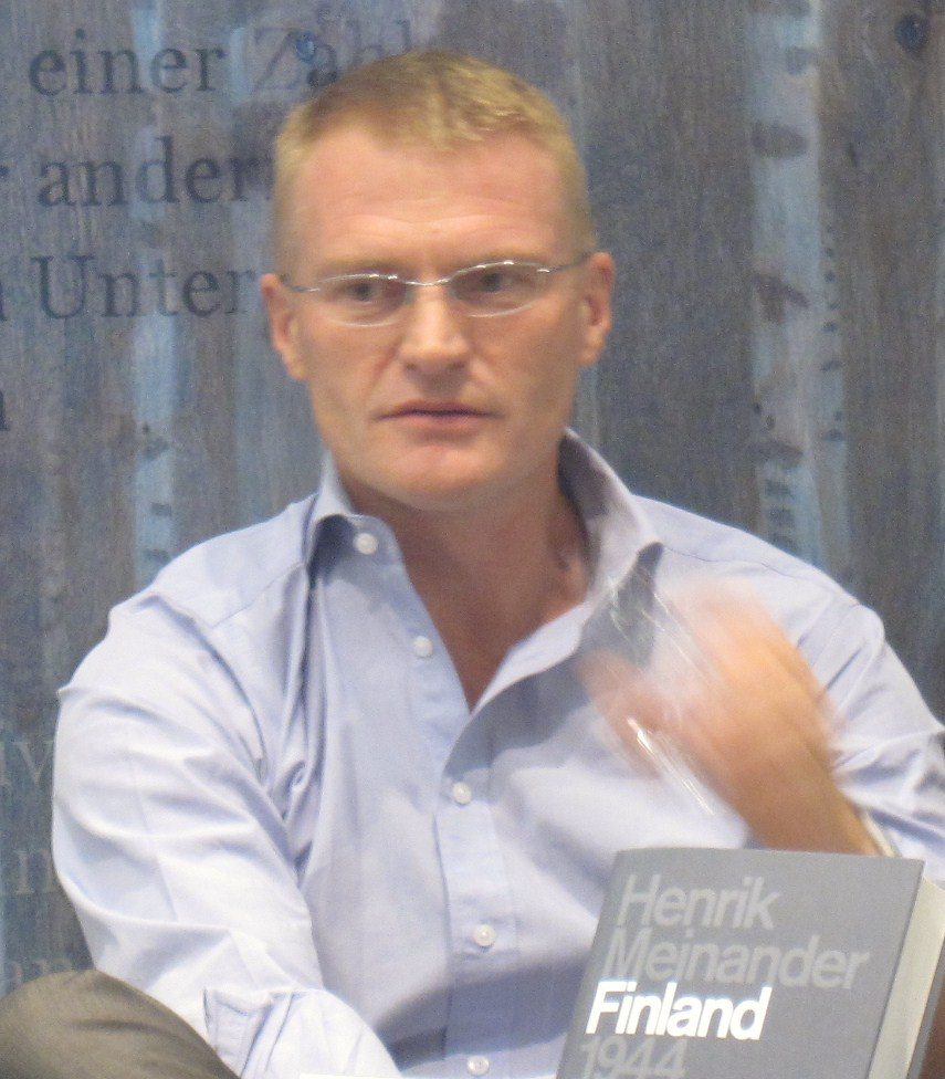 Finish historian Henrik Meinander at Gothenburg Book Fair 2009.